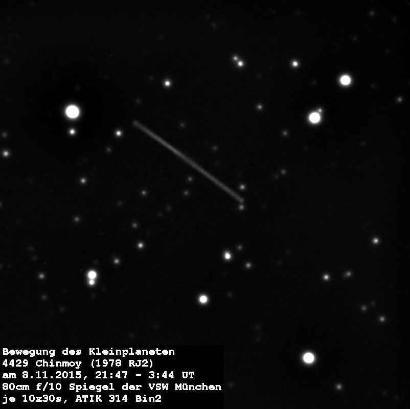 The moving astroid 4429 Chinmoy.